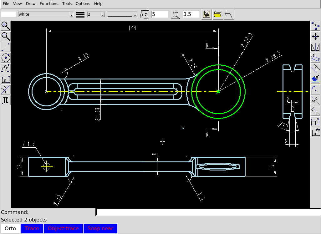 GUI (Graphic User Interface) of SAMoCAD - open source 2D CAD program.